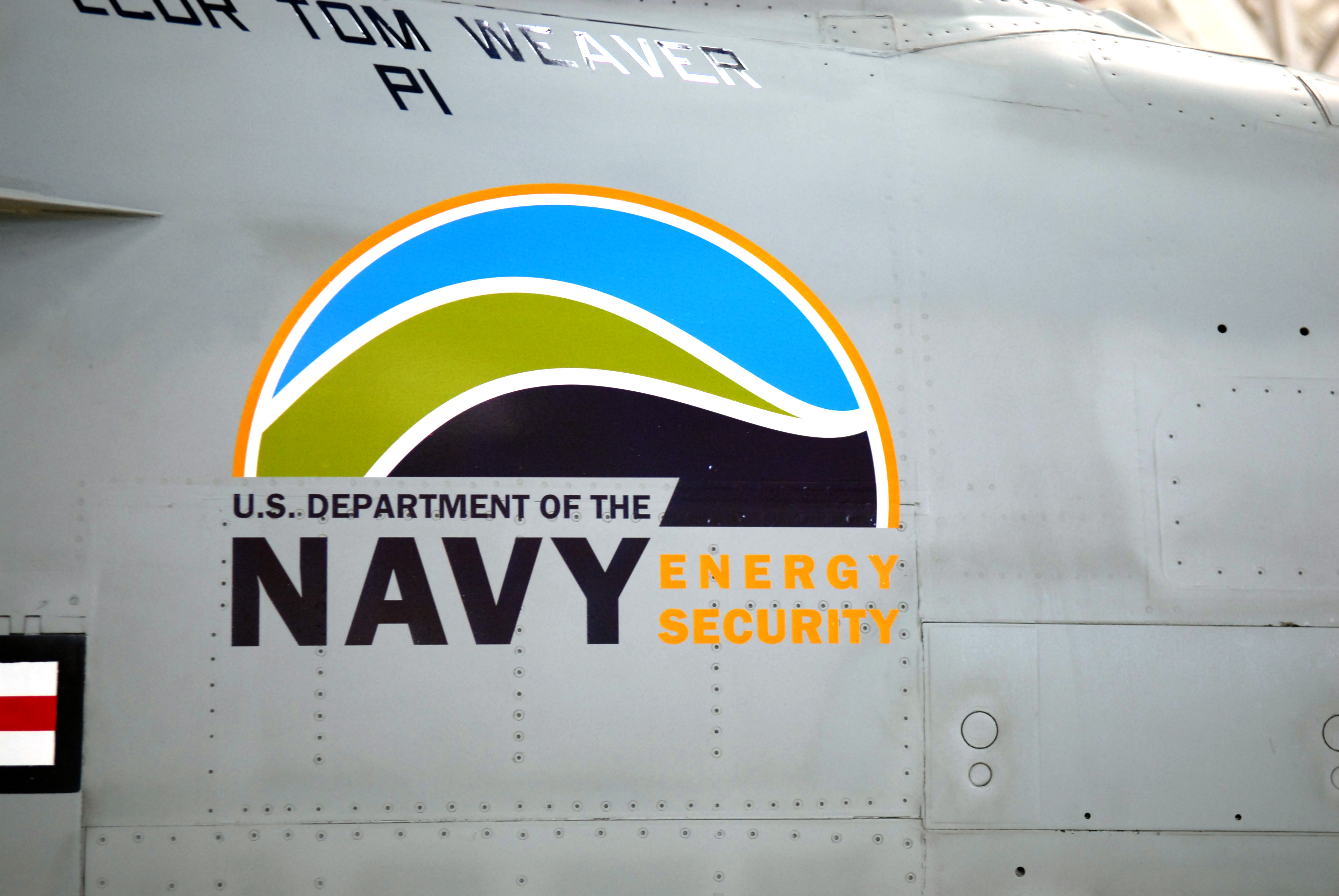 ANDREWS AIR FORCE BASE, Md. (March 29, 2010) An F/A-18 Super Hornet from Air Test and Evaluation Squadron (VX) 23 with green markings and the U.S. Department of the Navy Energy Security logo is in the hangar at Andrews Air Force Base. VX-23 will be testing the full envelope of the Super Hornet with a drop in replacement biofuel made from the camelina plant in an effort to certify alternative fuels for naval aviation use. (U.S. Navy photo by Mass Communication Specialist 2nd Class Clifford L. H. Davis/Released)